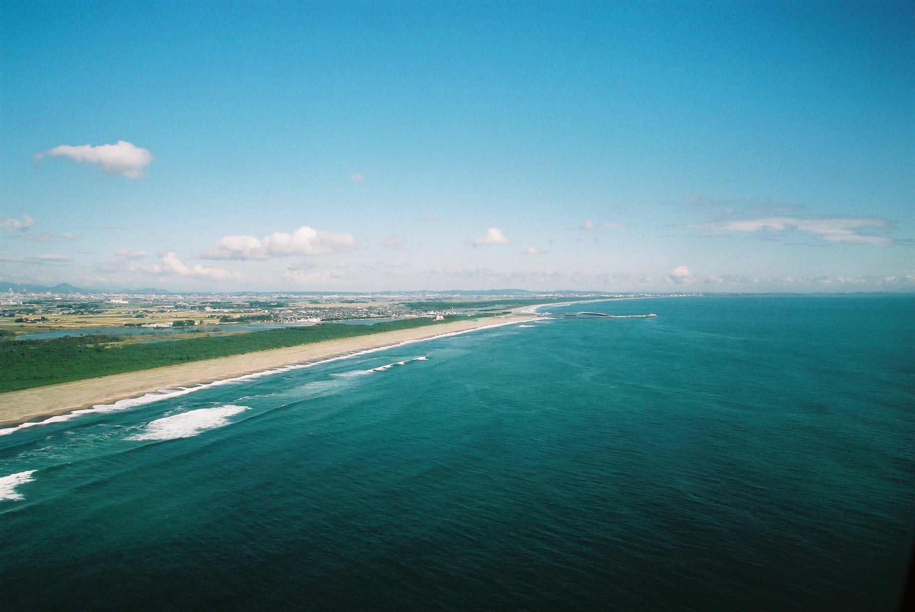 Yuriage in Natori city, Miyagi pref Japan. We can see the white arch bridge, New Natori River Bridge of Sendai-Tōbu Road.